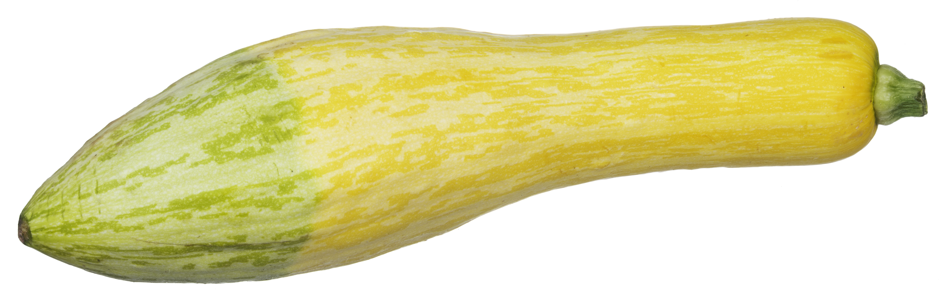 A yellow/summer squash, from an organic food co-op.